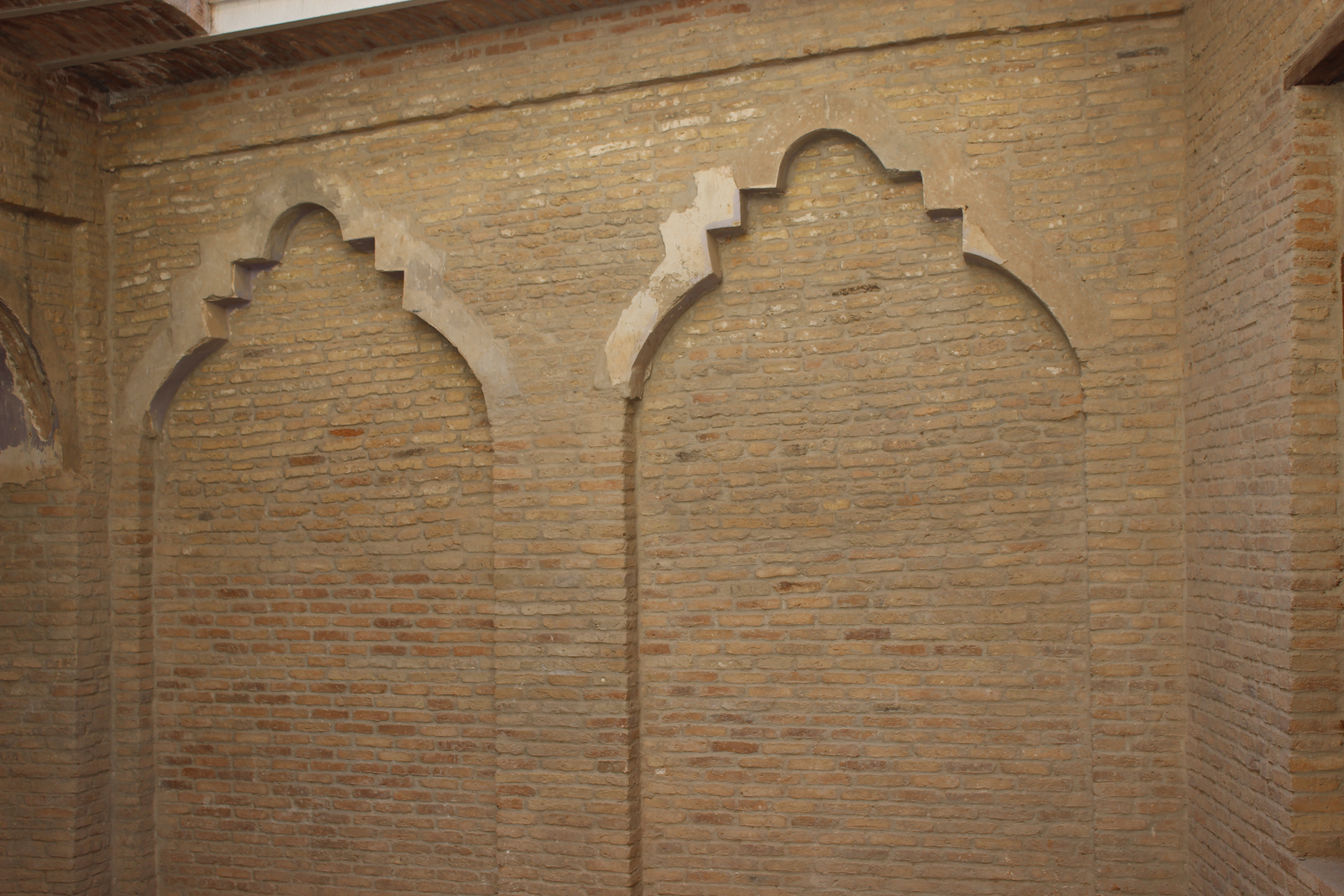 The Interior of one of the traditional houses in Erbil Citadel